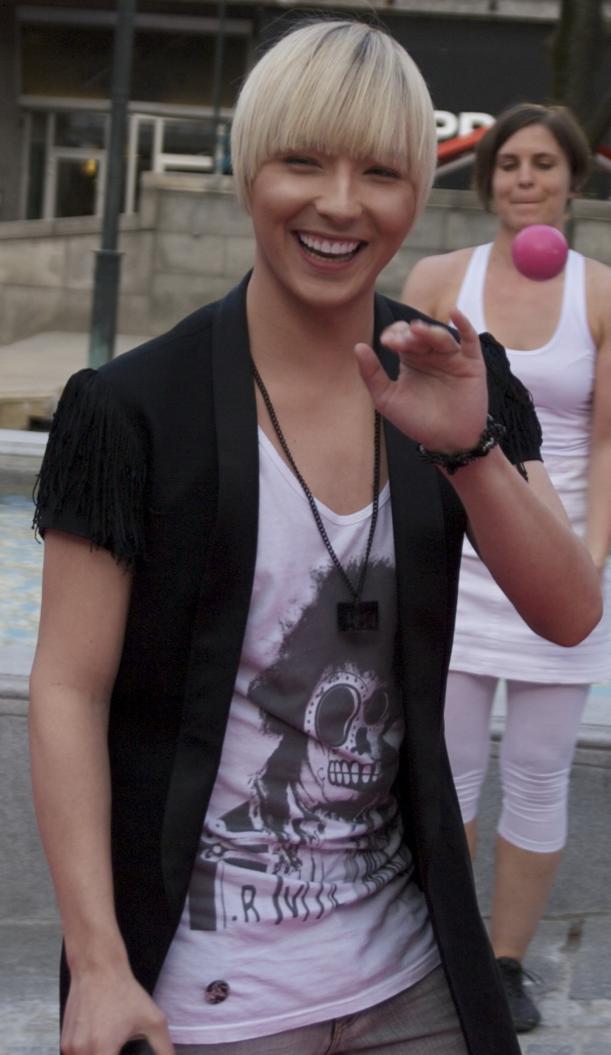 Milan Stankovic in Oslo, Norway. Foto: Vincent Hasselg�rd, Aktiv I Oslo.no